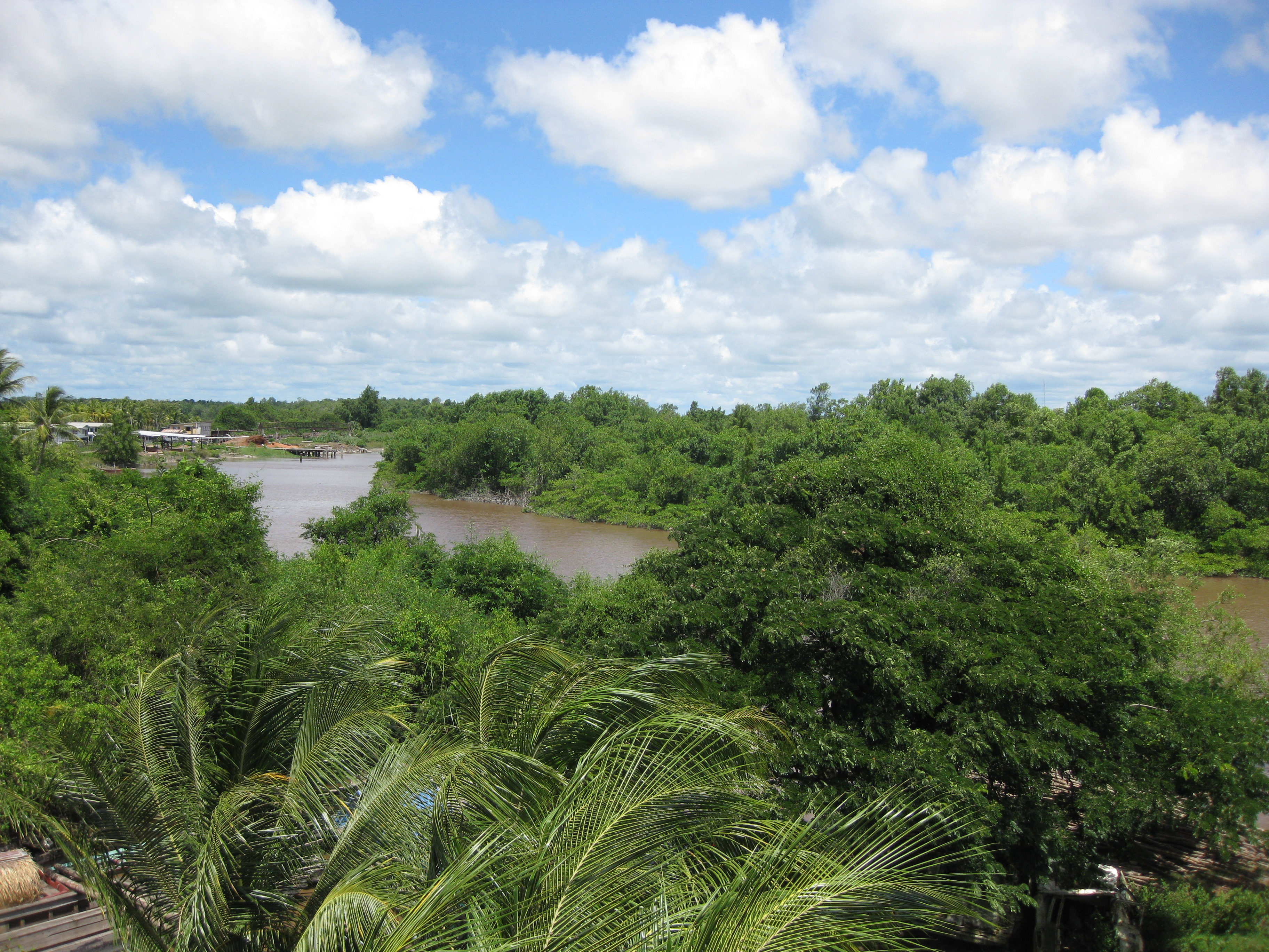 Photograph of the Canje River, Guyana, taken from the Canje Bridge in New Amsterdam